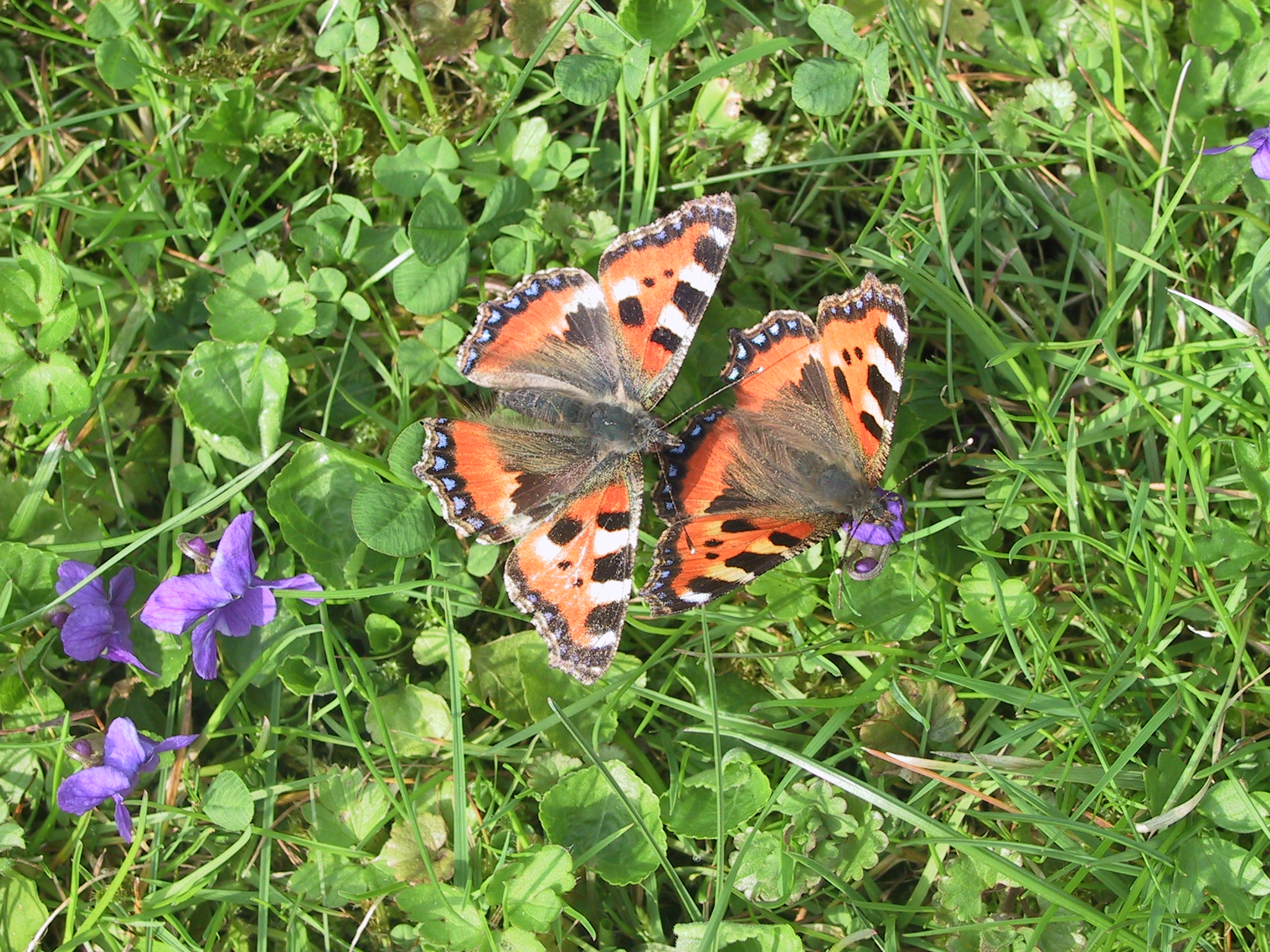 Description: Aglais urticae, male and female, Salzhemmendorf, Germany Source: self made Date: 2006-19-04 Author = --Ruestz 12:45, 20 April 2006 (UTC)